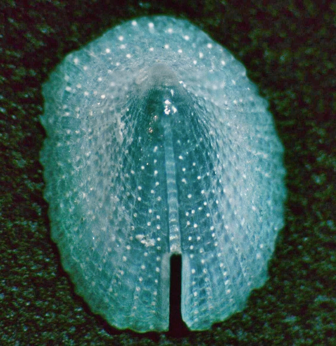 Emarginula solidula (Costa, 1829) a keyhole limpet from the family Fissurellidae